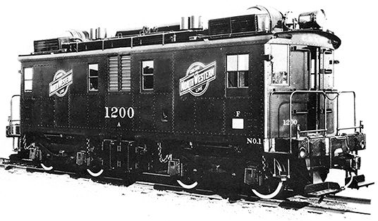 Factory photo of Chicago and North Western Railroads's GE-Ingersoll Rand diesel-electric locomotive with road number 1200 delivered in August 1930. The locomotive pictured was the last built 600 hp unit and was 1957 scraped.